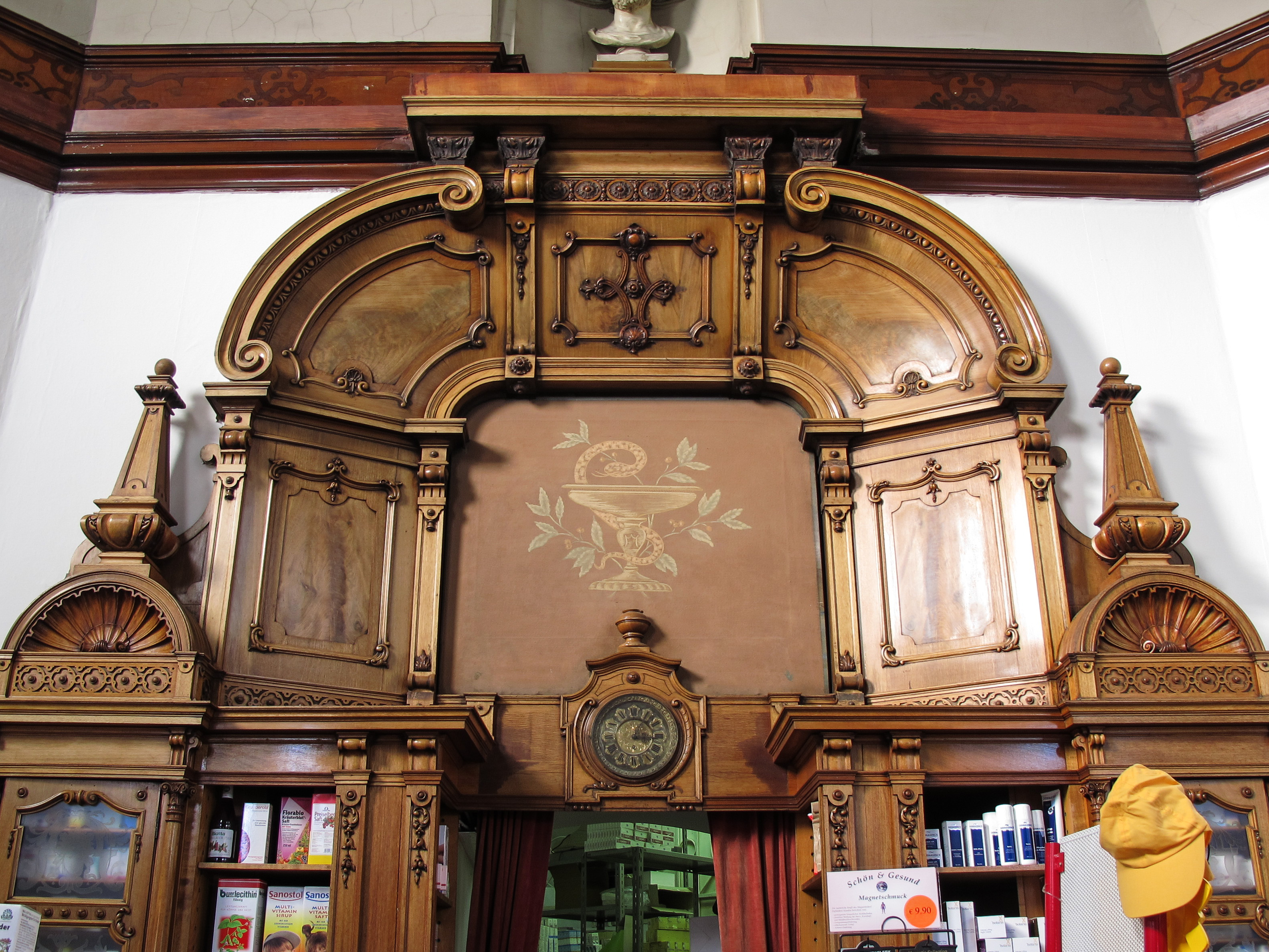 Inside the house of the pharmacist to St. Bridget on Wallensteinplatz at Wallensteinstraße in the 20th district of Vienna Brigittenau / Austria / EU.